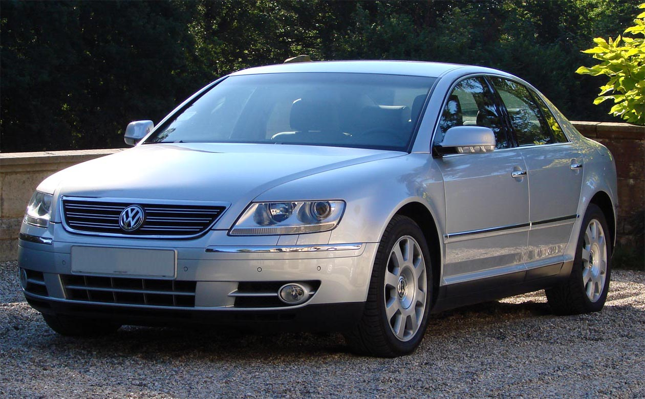 2005 V6 TDI Volkswagen Phaeton